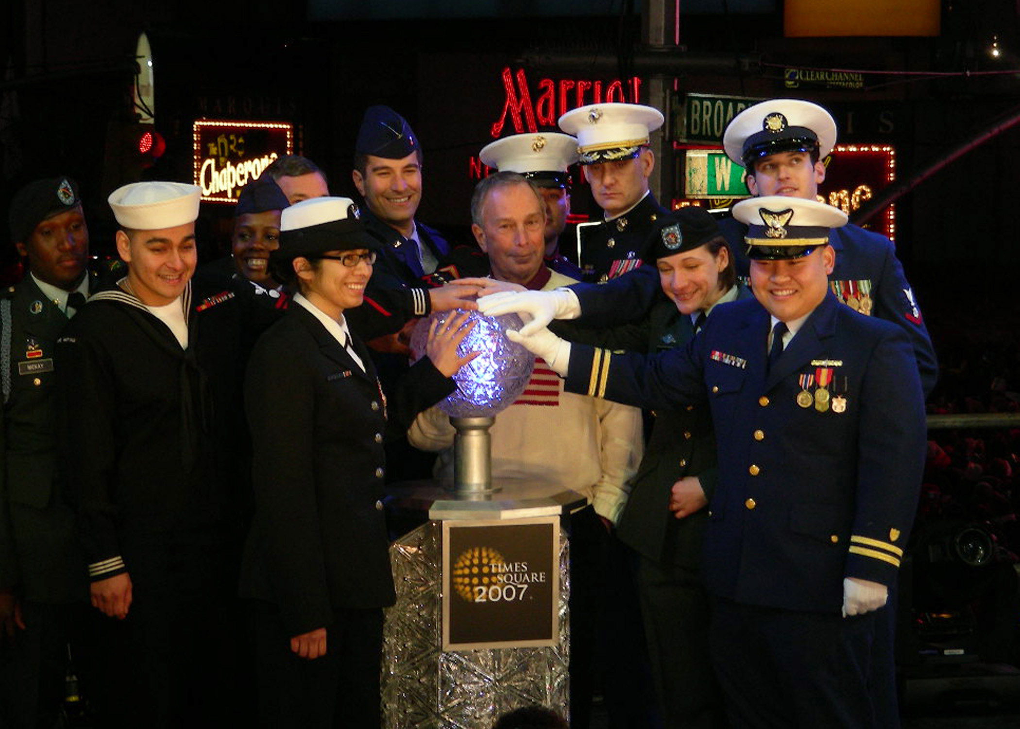 New York (Dec. 31, 2006) - Electrician's Mate 2nd Class Oswaldo San Andres and Master-at-Arms 2nd Class Lillianne Perez join New York City Mayor Michael R. Bloomberg and eight other service members as they press the button to ring in the New Year at Times Square New Year's Eve celebration. New York City selected America's military service members as the honorees for this year's ceremony. U.S. Navy photo by Lt. Lesley Lykins (RELEASED)·←